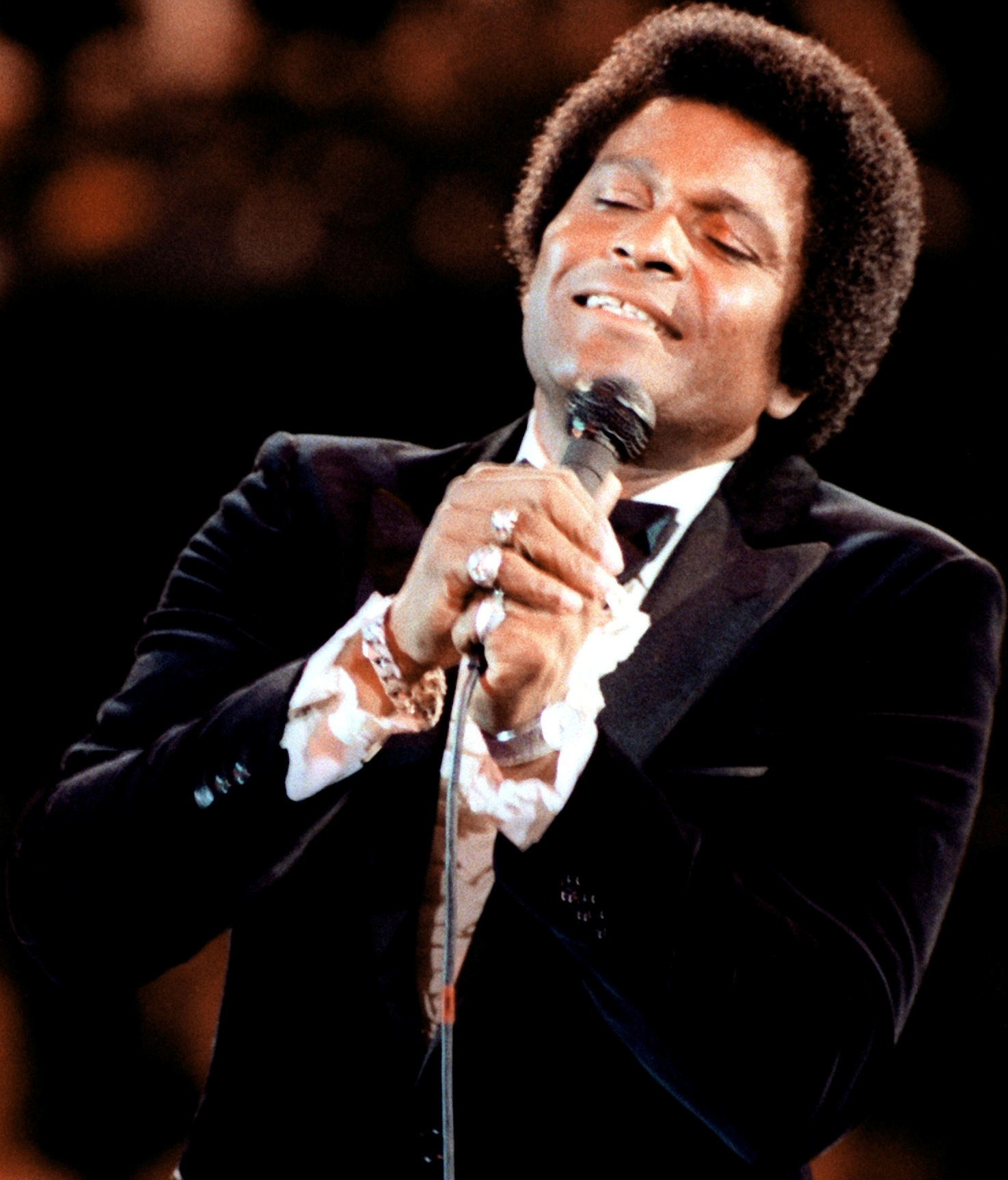 The popular country/western singer Charlie Pride sings to the honored guests during the gala celebration at the Capital Center, on Inauguration Day. (Released to Public)